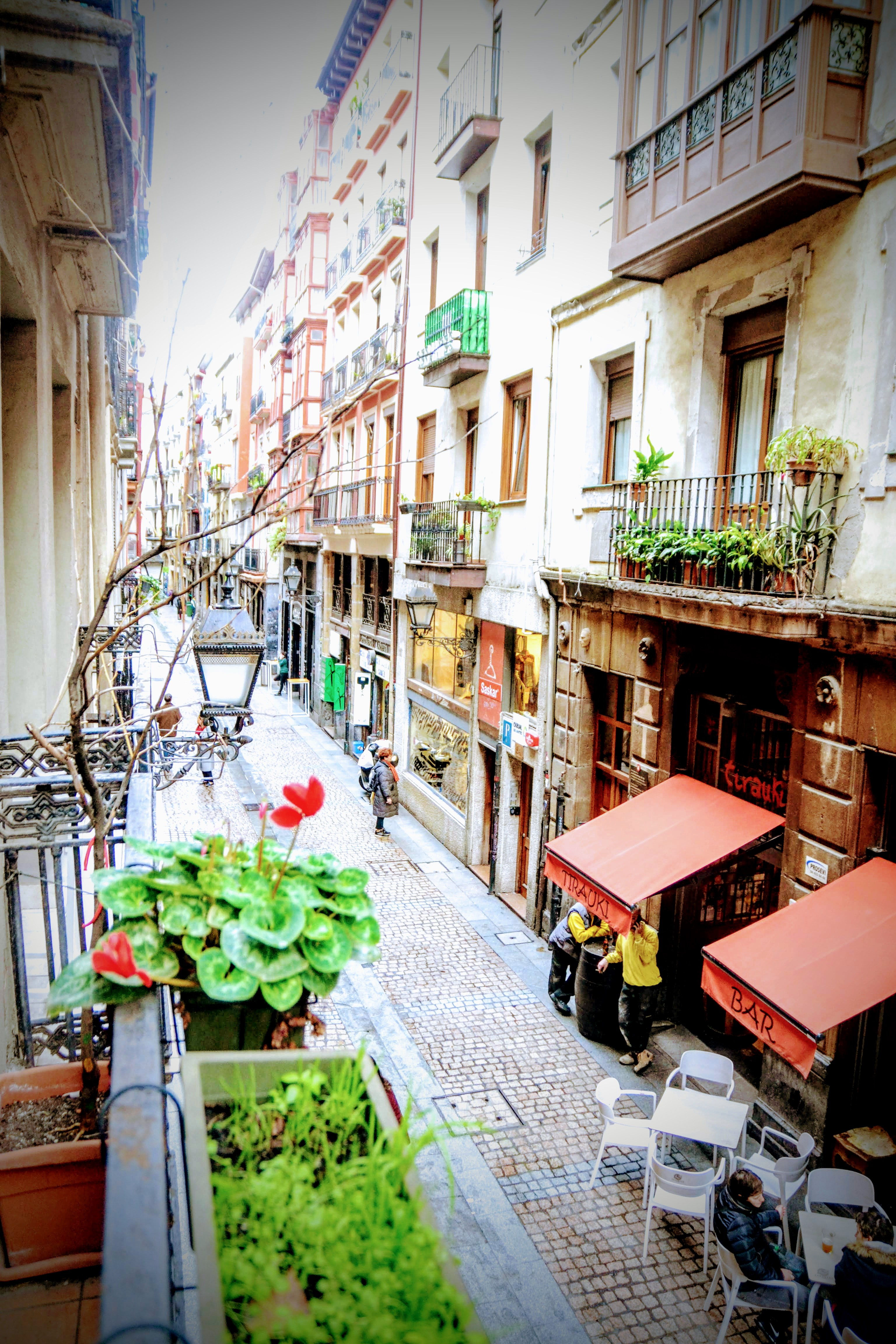 Somera Street